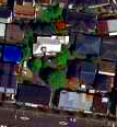 The Geographical Survey Institute took the aerial photograph in Setagaya Ward, Tōkyō Metropolis on April 27, 2009.